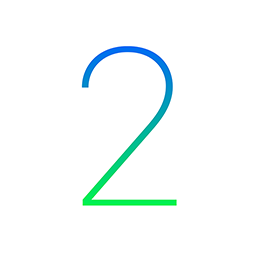 The Logo of watchOS 2 operating system by Apple Inc.